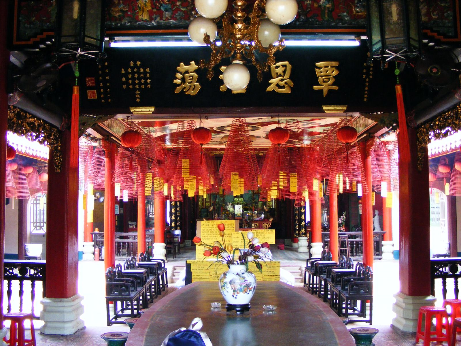 Fujian Chinese Assembly Hall, Hoi An, Vietnam.